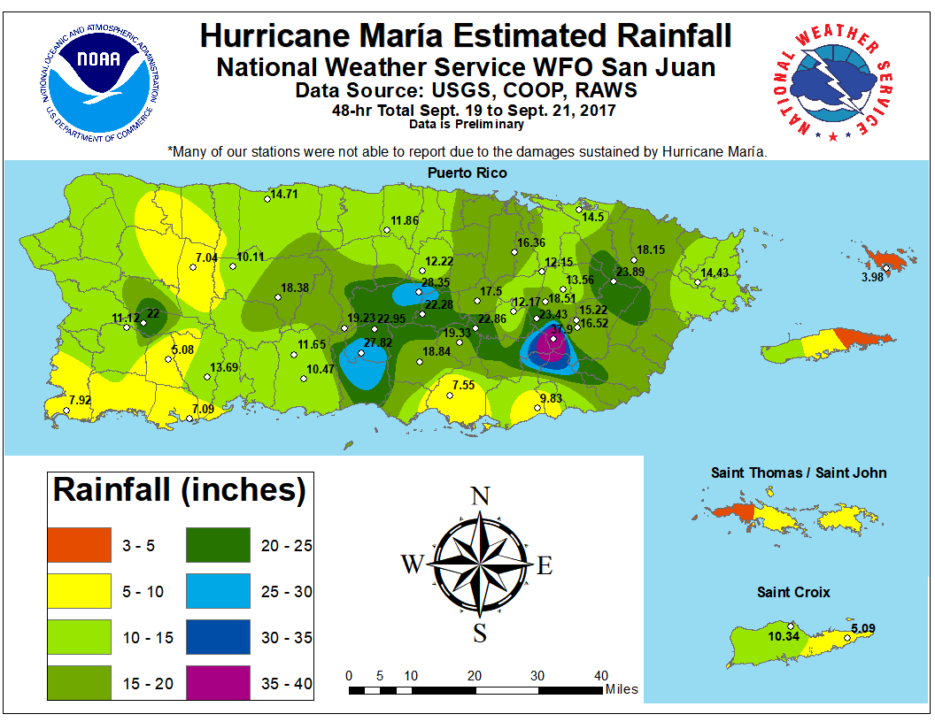 Estimated rainfall totals from Hurricane Maria in Puerto Rico and the U.S. Virgin Islands with totals from reporting stations.